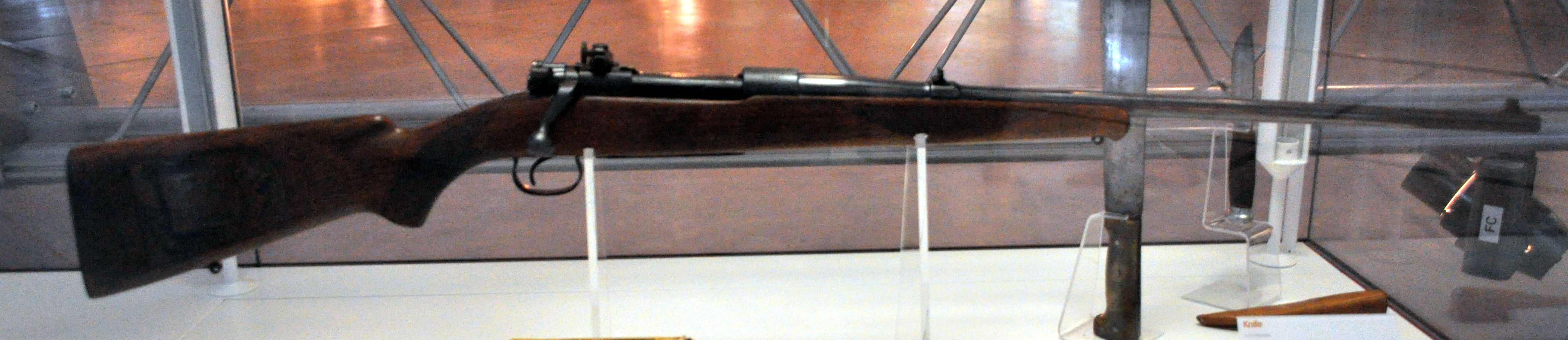 Winchester Model 54 carried by Charles Lindbergh on his expeditions on display at the Smithsonian Institution's National Air and Space Museum.